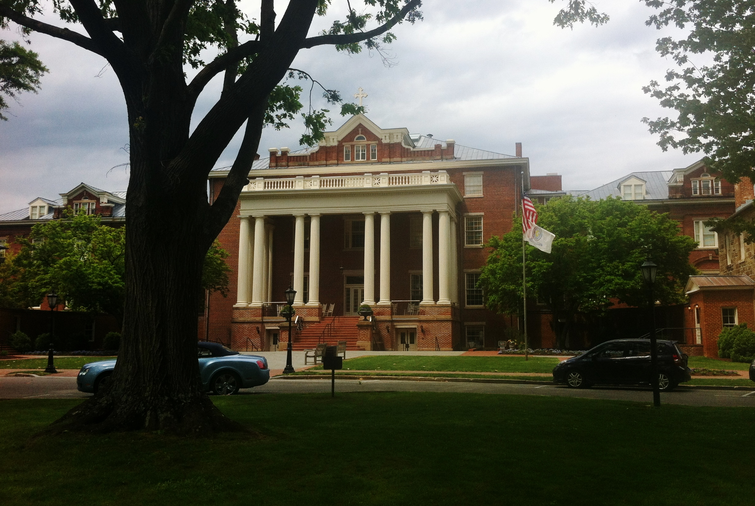 Front entrance and main building of Saint Mary's School located in Raleigh NC